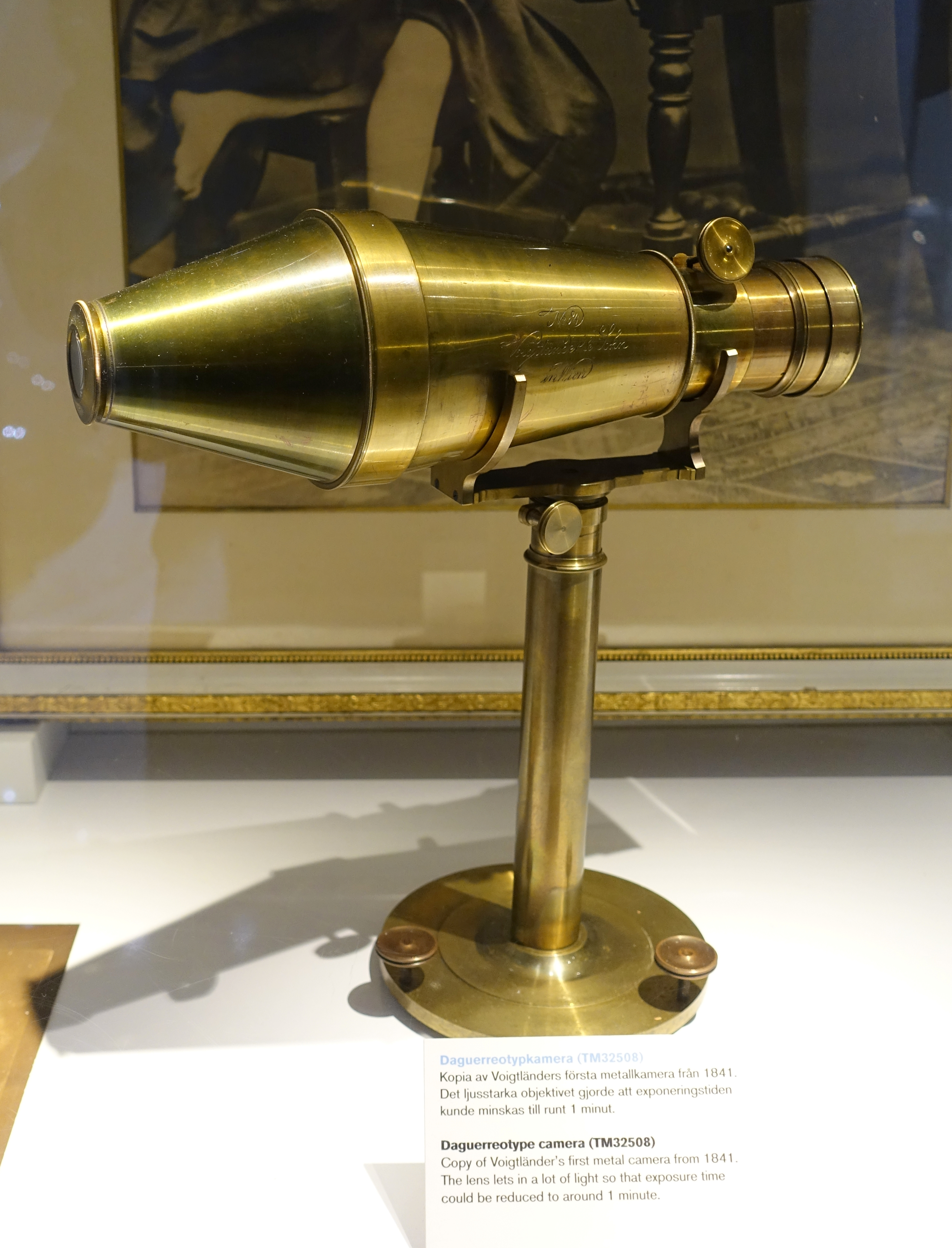 Exhibit in the Tekniska museet, Stockholm, Sweden. This work is old enough so that it is in the public domain.